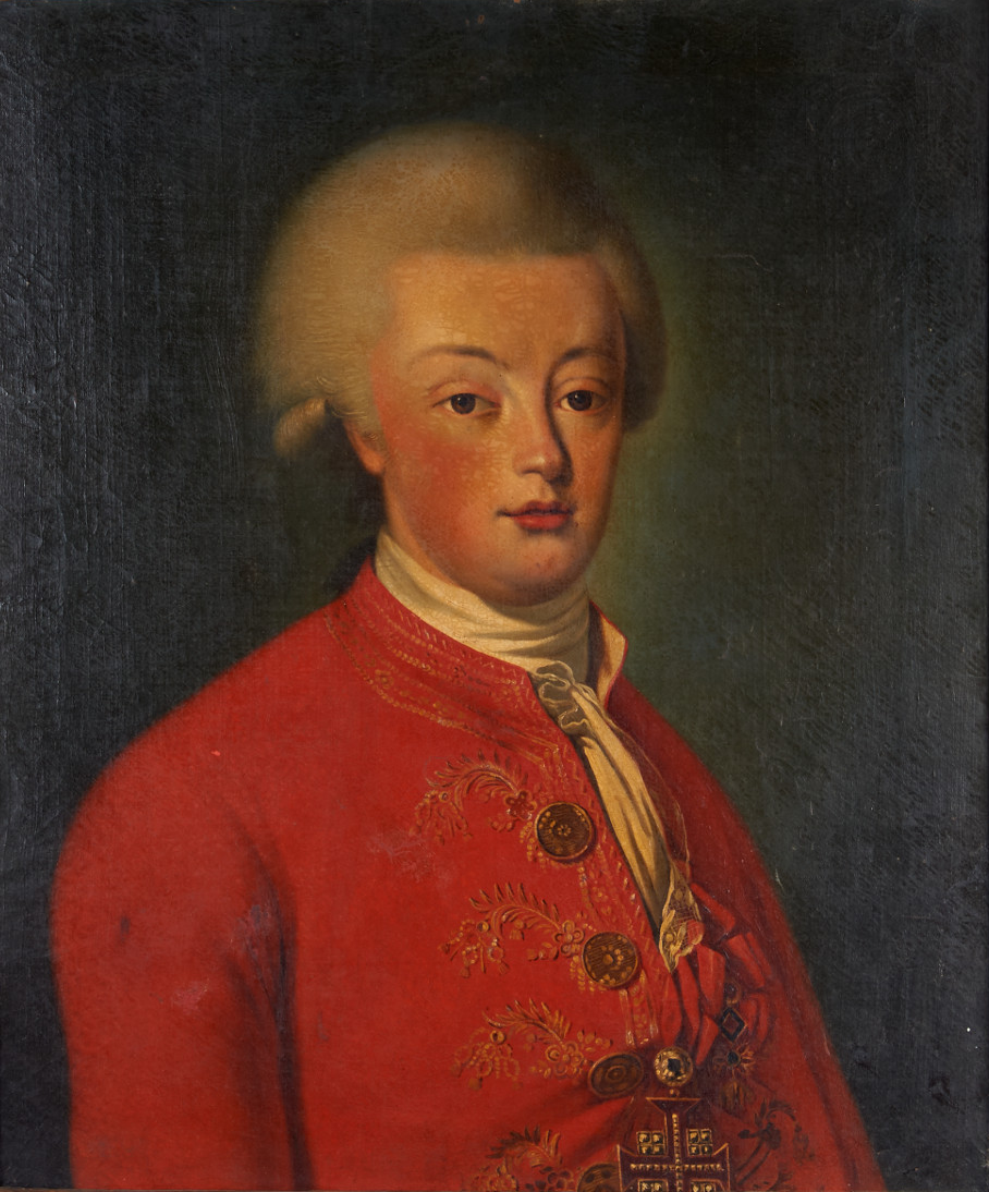 Portrait of Joseph of Braganza, Prince of Brazil (1761-1788)